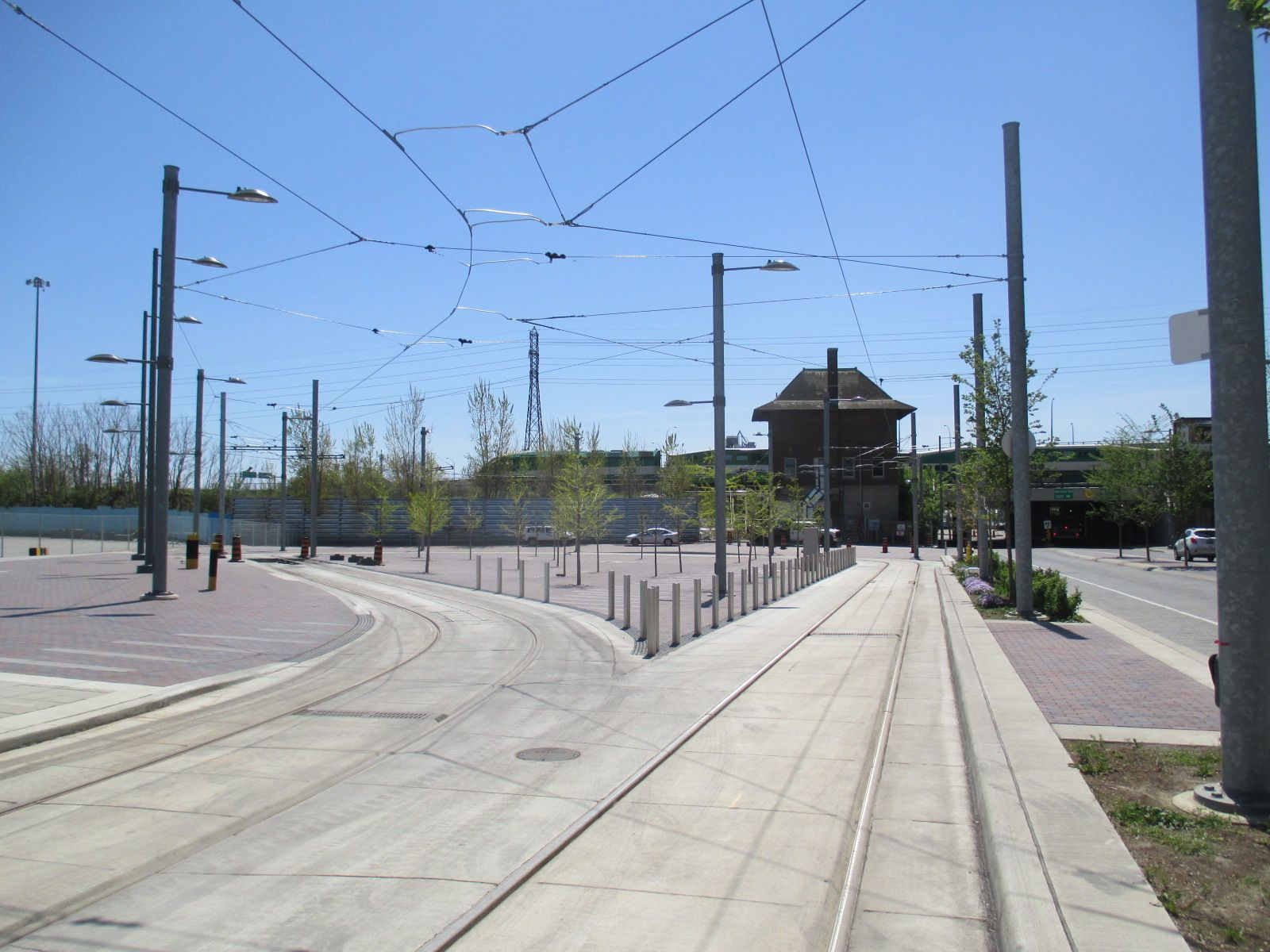 The almost finished Distillery Loop at the southern end of the Cherry Street streetcar line